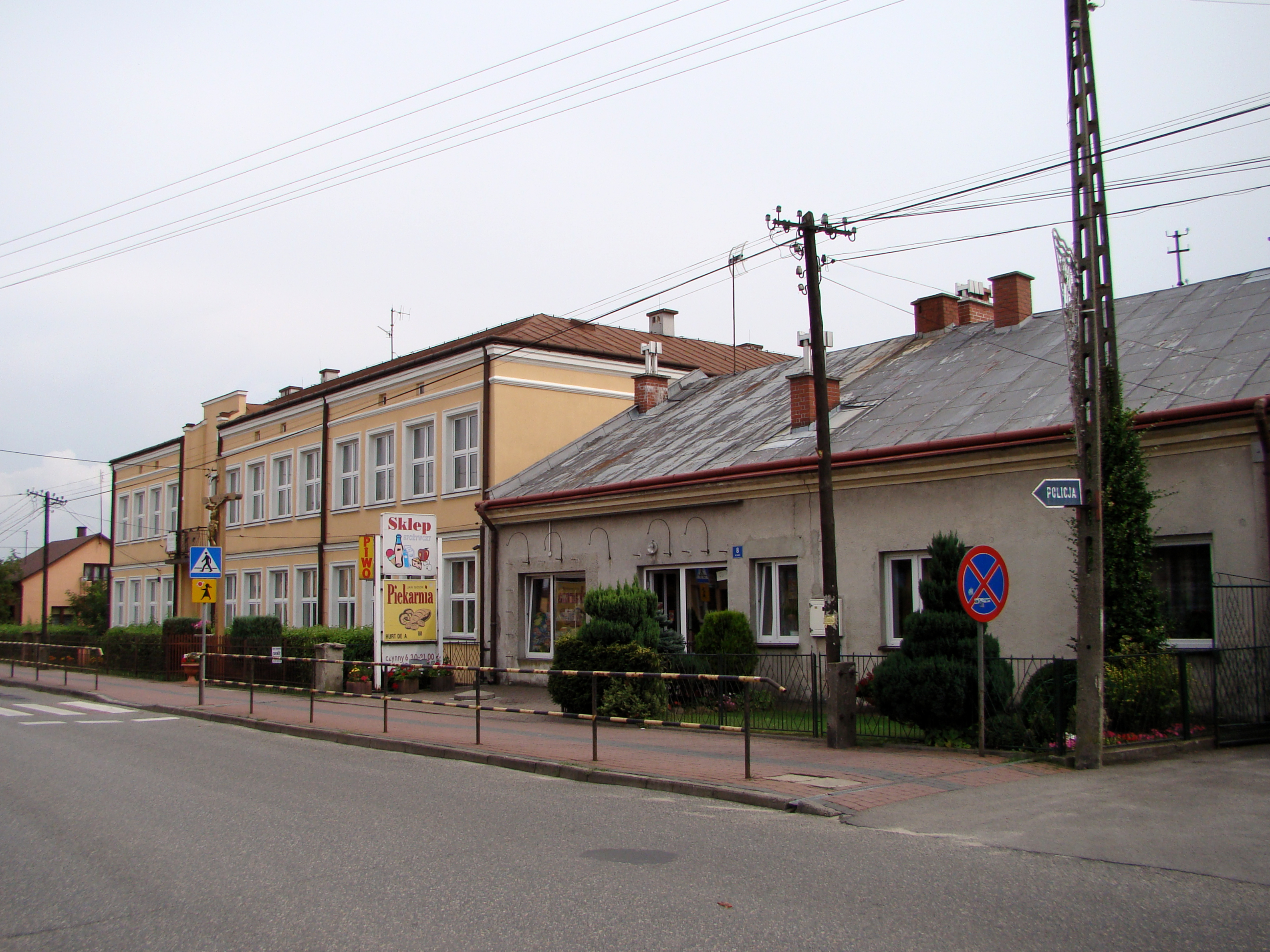 Ranizów - elementary school